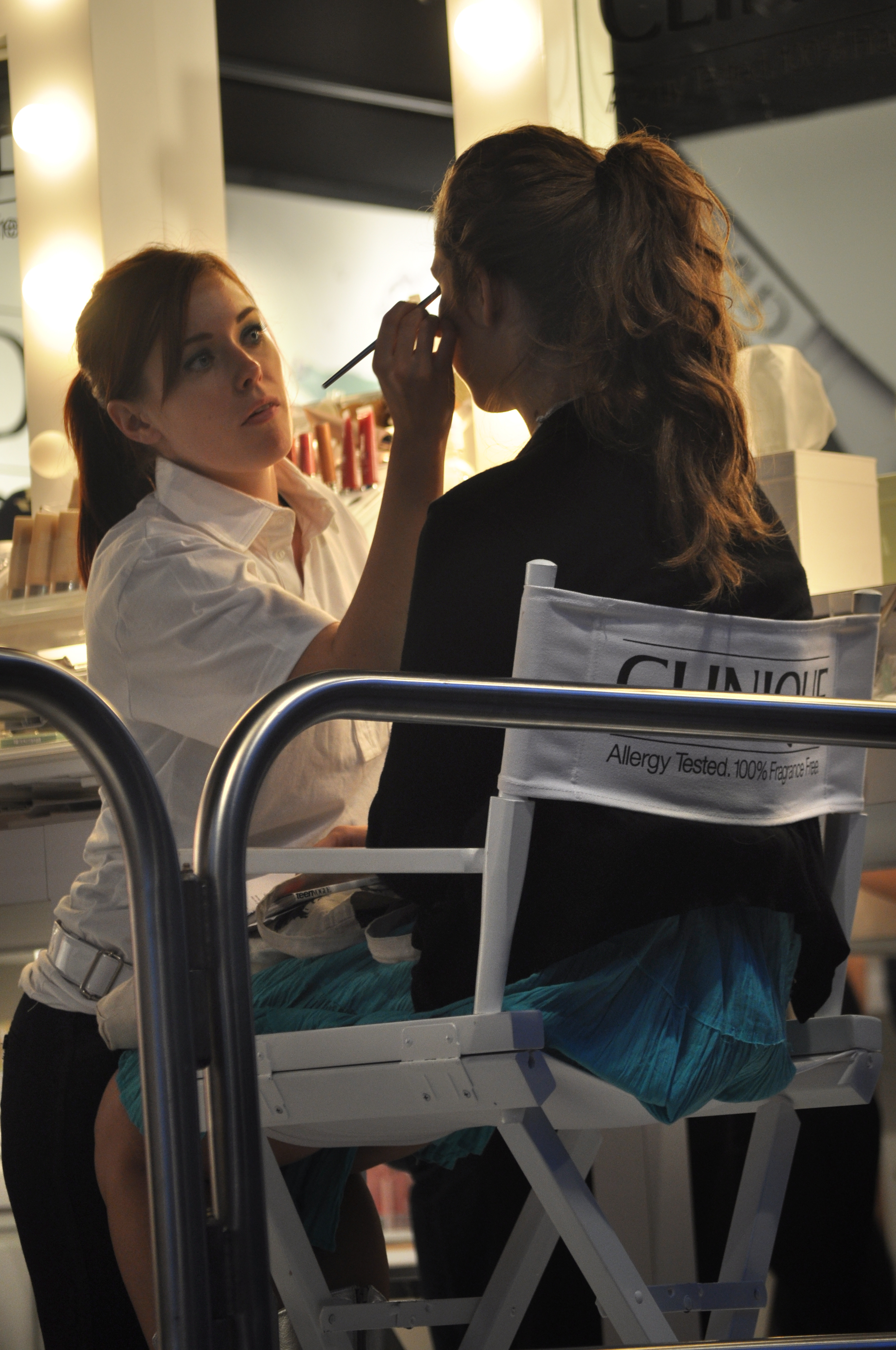 Union Square, New York city